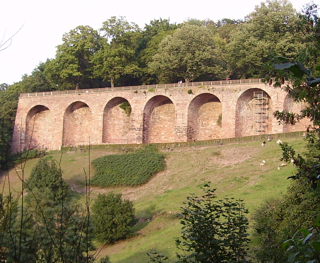 garden of Heidelberg castle (Hortus Palatinus)